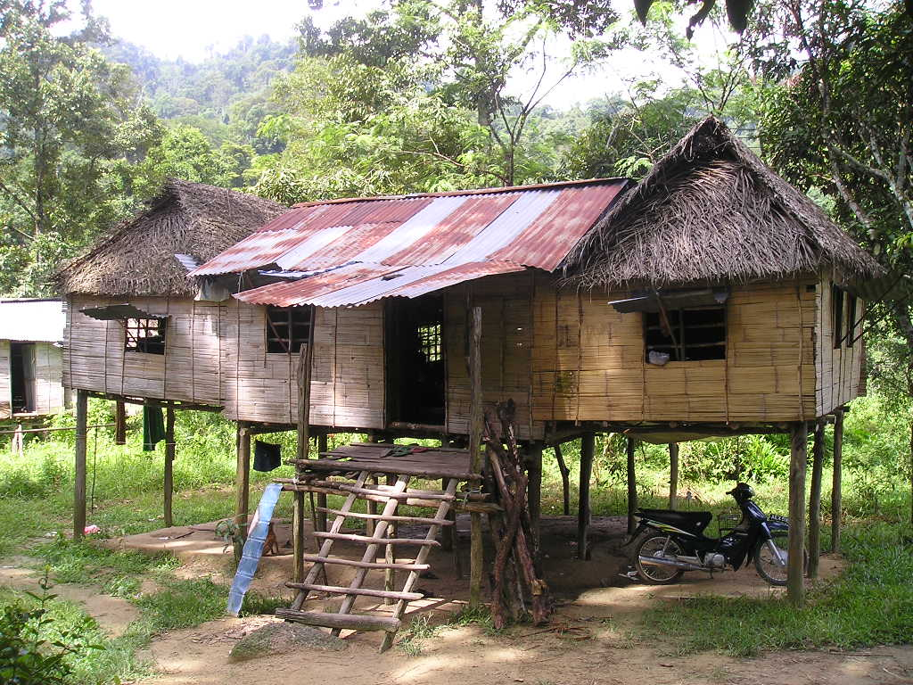 The most popular trail been using to this mountain start at Ulu Kinta, Perak. I found this Orang Asli hut at the beginning of the trail.